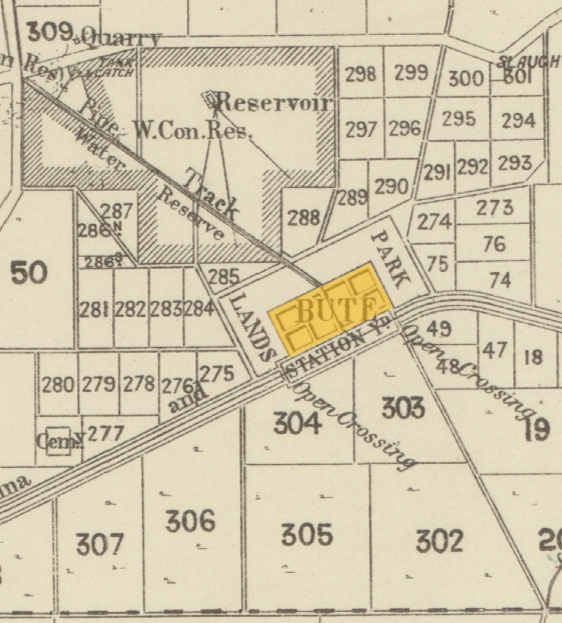 Government Town of Bute, South Australia, shown on an excerpt of a 1905 cadastral map of the Hundred of Wiltunga.